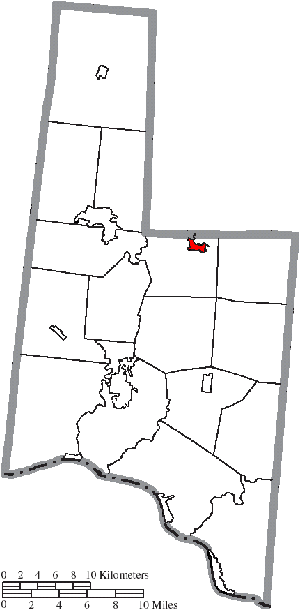 Map of the municipal and township boundaries of Brown County, Ohio, United States, as of the 2000 census, with the location of the village of Sardinia highlighted. Township borders are shown only in unincorporated areas in order to differentiate incorporated and unincorporated areas more clearly.